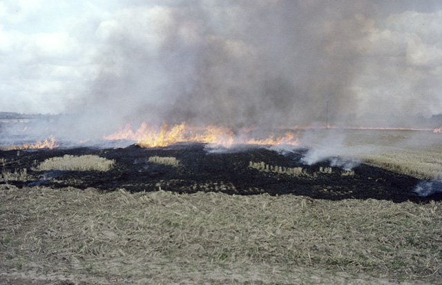 Stubble burning in North Essex